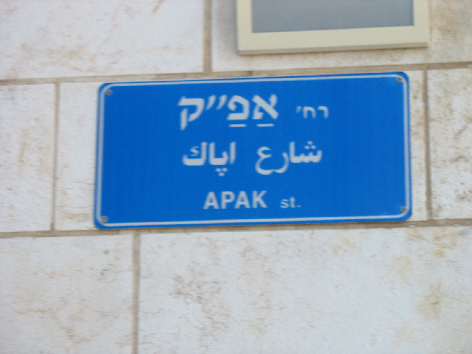 A street sign in Jaffa. The name APAK is an abbriation which stands for Anglo Palestine Co.